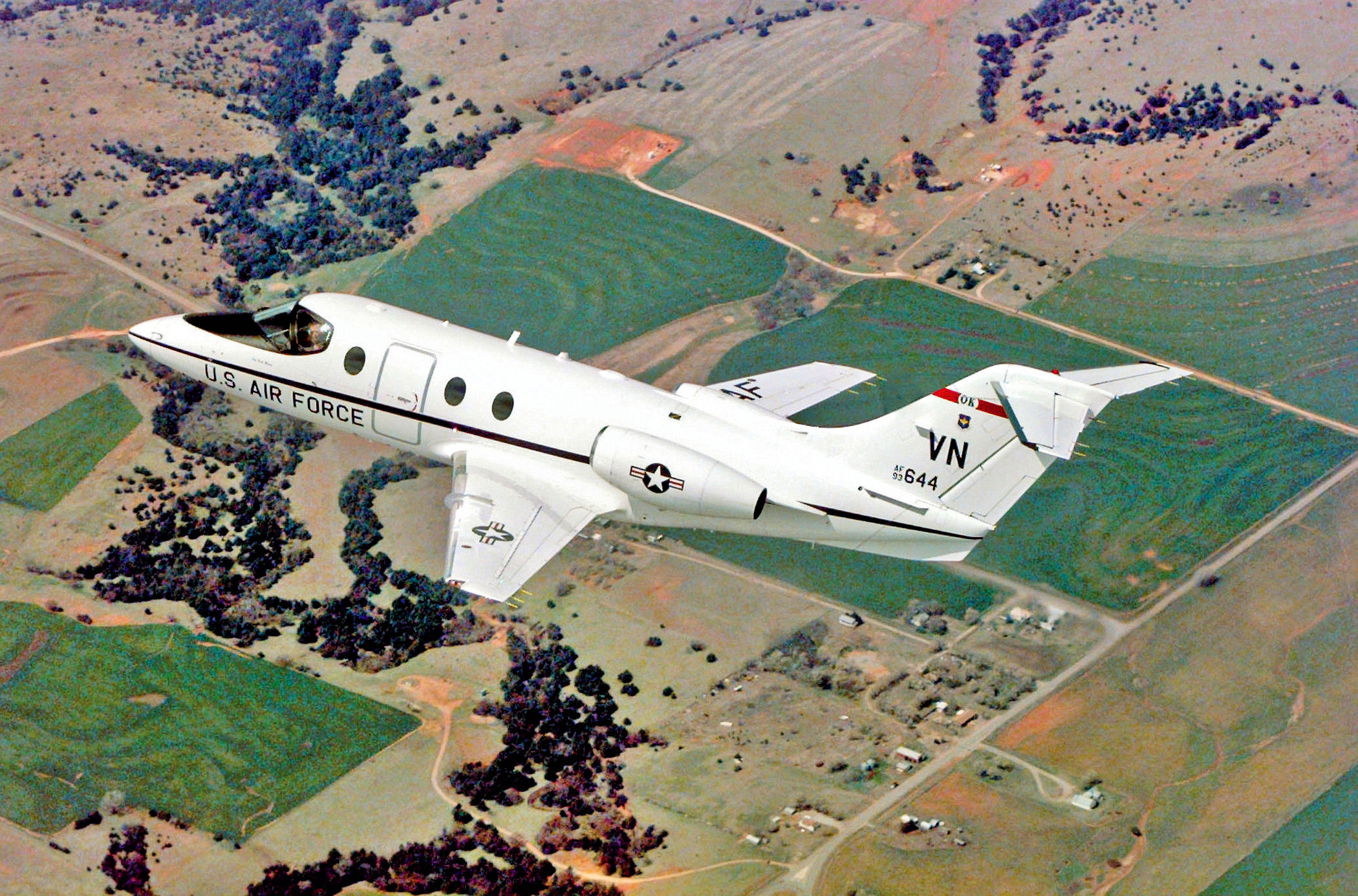 VANCE AIR FORCE BASE, Okla. -- An air-to-air view of a T-1 Jayhawk during a training mission. (U.S. Air Force photo by Terry Wasson) (Photo 5/5)